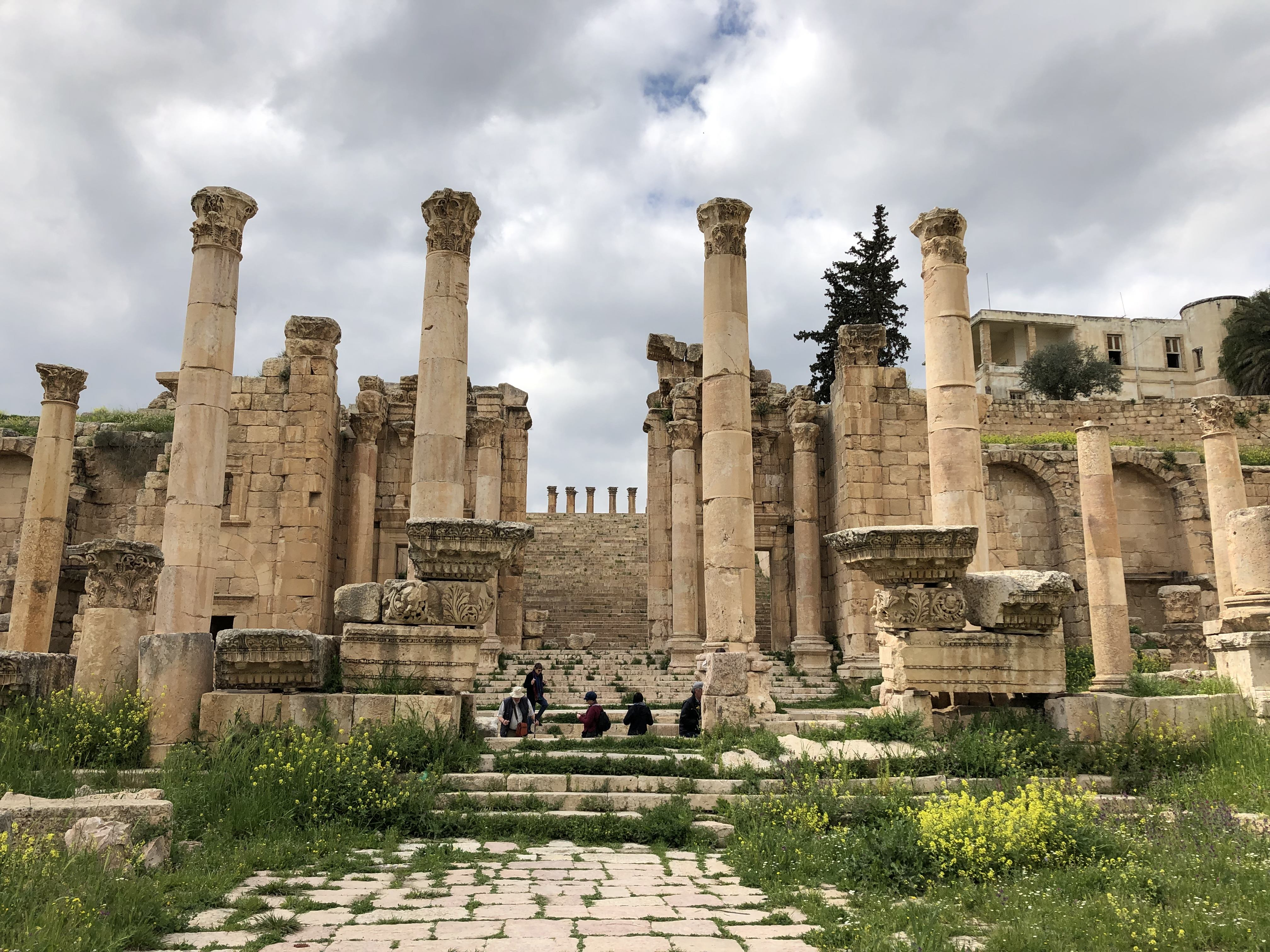 Propylaeum at Gerasa (Jerash)